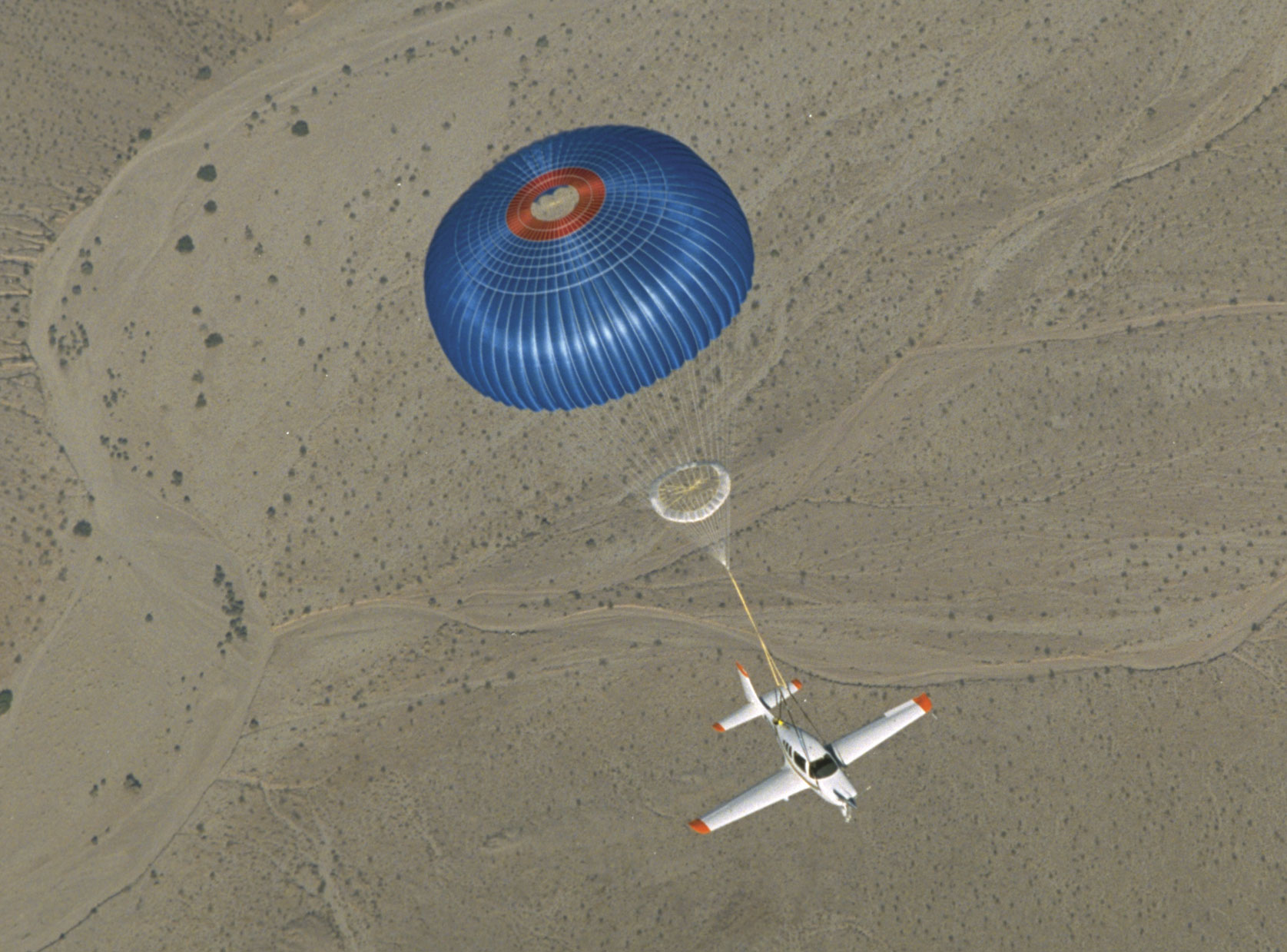 An SR20 aircraft descends to the ground, supported by a ballistic parachute. The system, called "Cirrus Airframe Parachute System", was designed in the mid-1990s by companies Cirrus and Ballistic Recovery Systems.